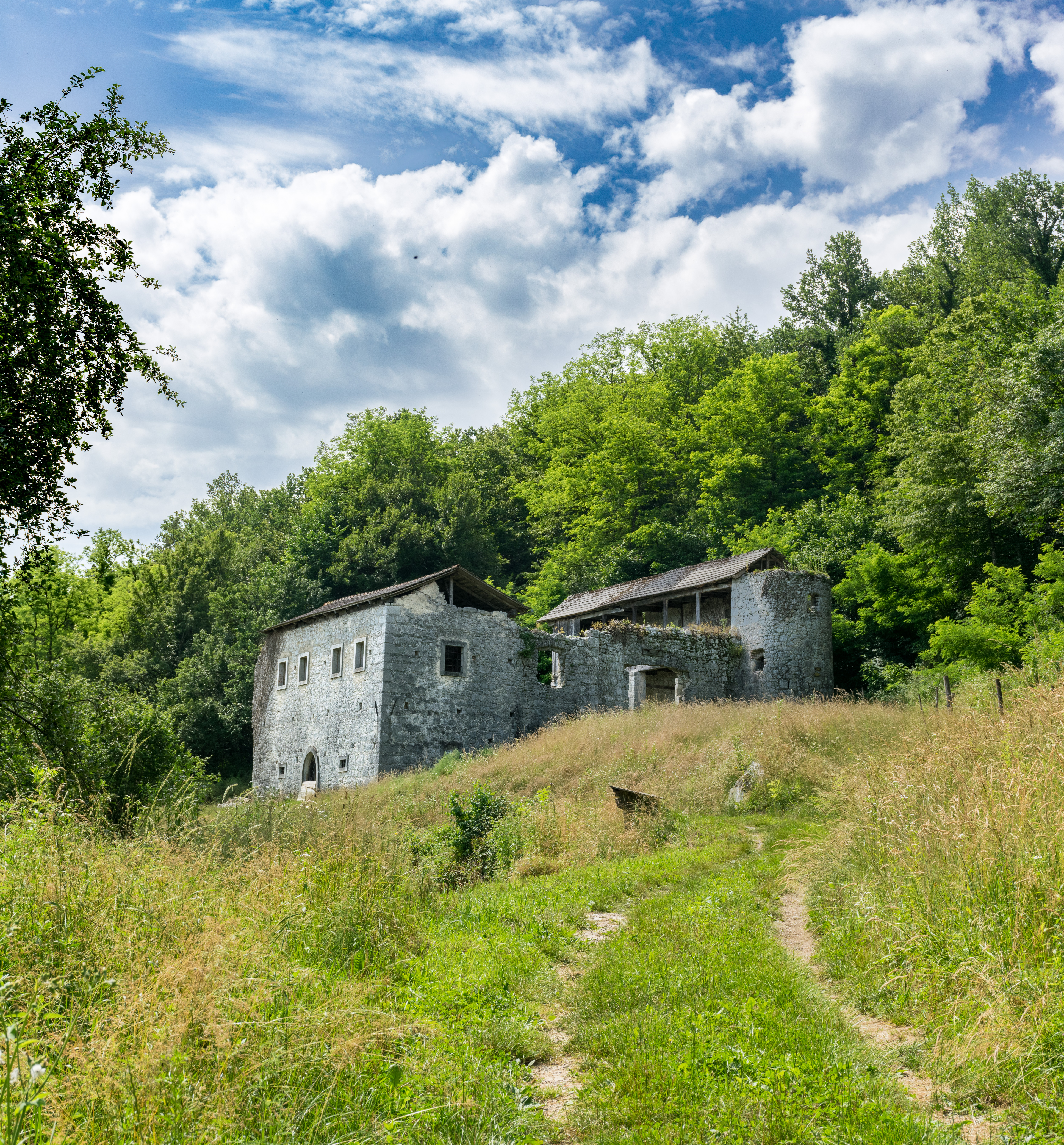 Castle Turn in the village of Breznik in the municipality of Črnomelj in southeastern Slovenia, a region called Bela krajina. The castle was supposedly built in the 14th century. It was first mentioned in 1463 as "Wilhalmen Semenitsch turren"